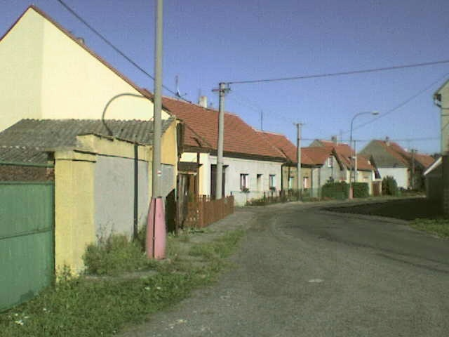 Lodenice, Rakovnik district, Czech Republic